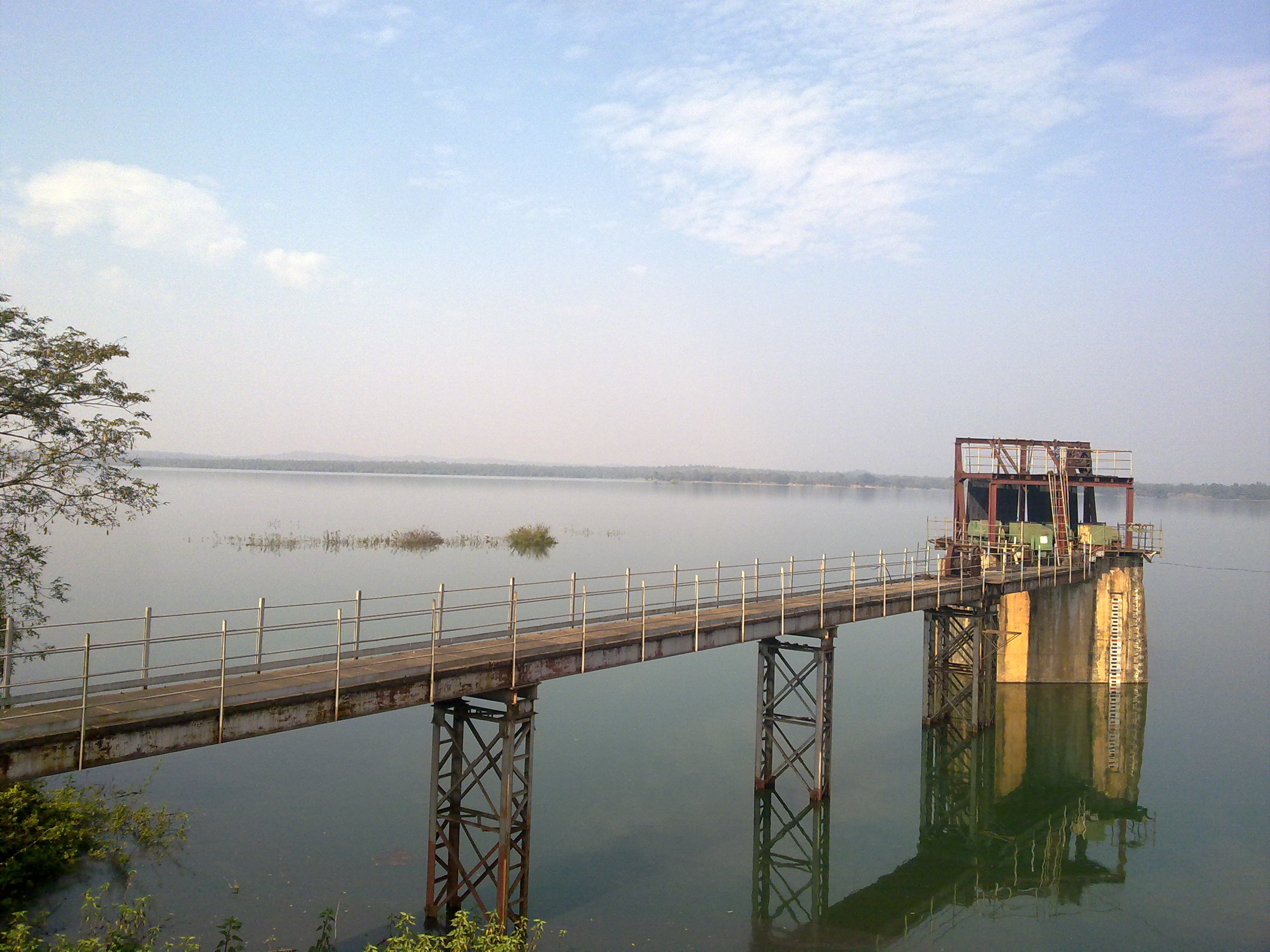 kanshbahal mandira dam